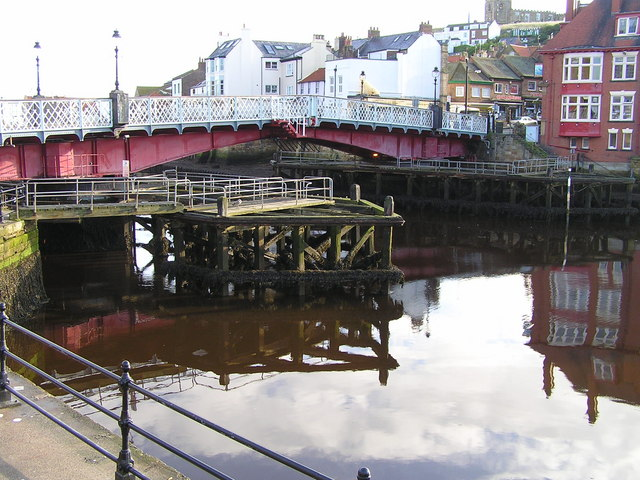 Closed bridge across the Esk at Whitby The bridge is made in two halves and can swing open for large ships to pass into the harbour